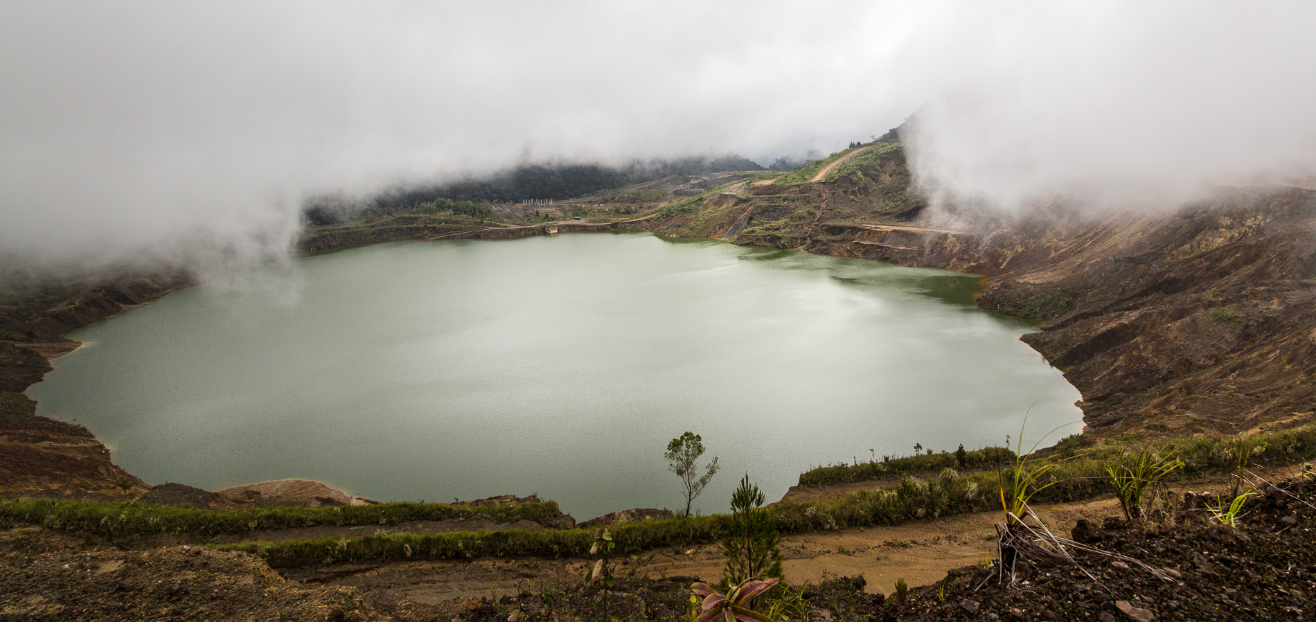 Ranau, Sabah: Mamut Copper Mine, view from crater rim